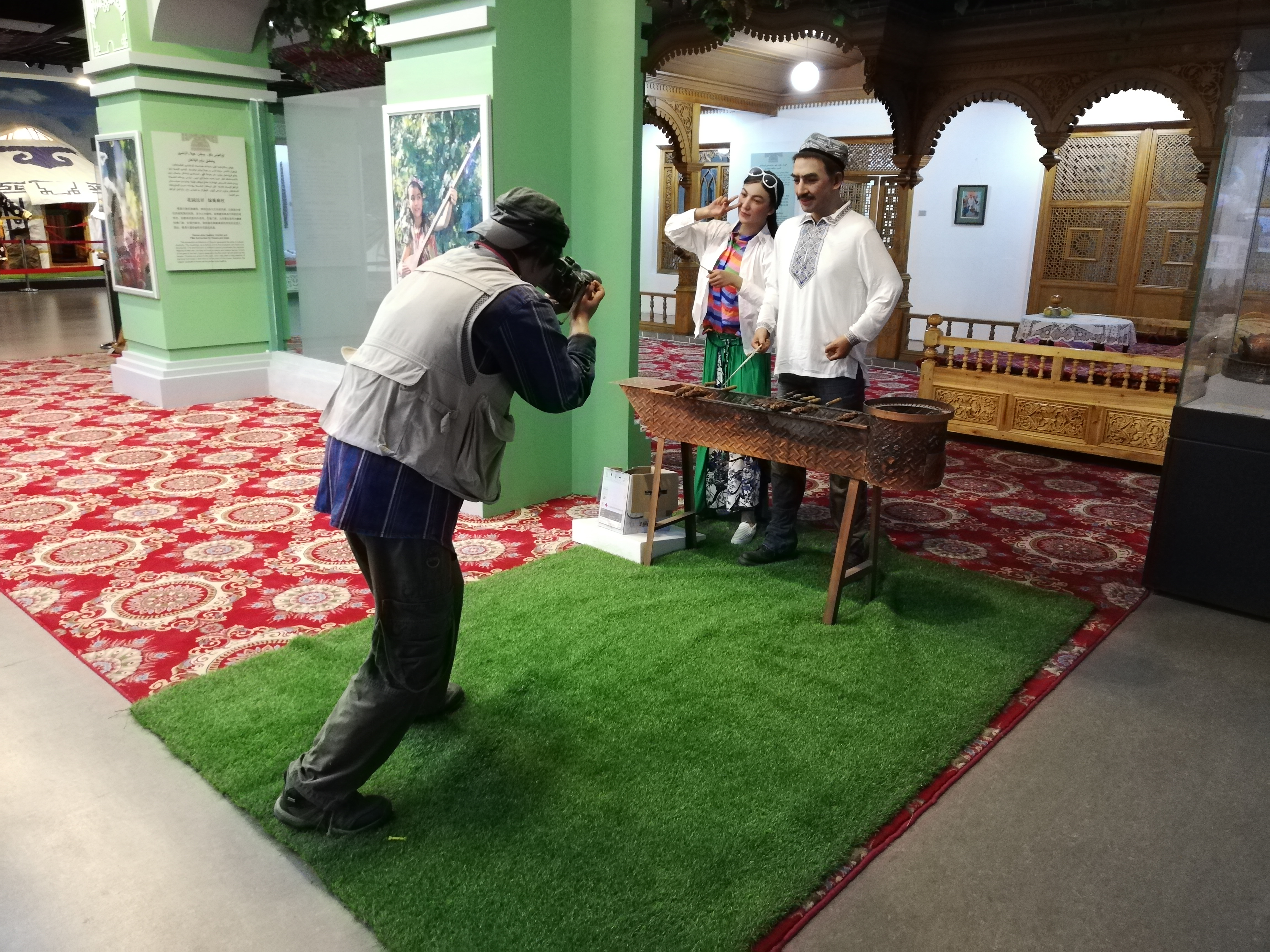 Three wax statues at the "Ethnic Minorities Exhibit" at the Xinjiang Uyghur Autonomous Region Museum in Ürümqi. One of the statues is supposed to represent a Uyghur man grilling kebabs; the statue next to him is of a female tourist posing next to him while making a peace sign, and standing opposite these two statues is another one of a male tourist taking a photo.